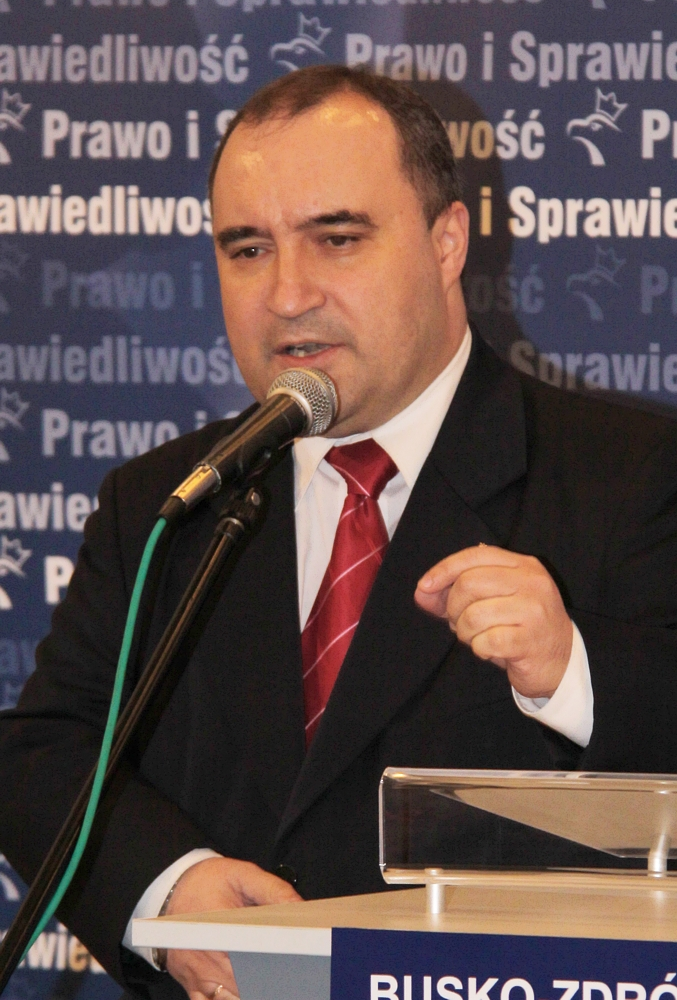 Przemysław Gosiewski, Member of Polish Parliament